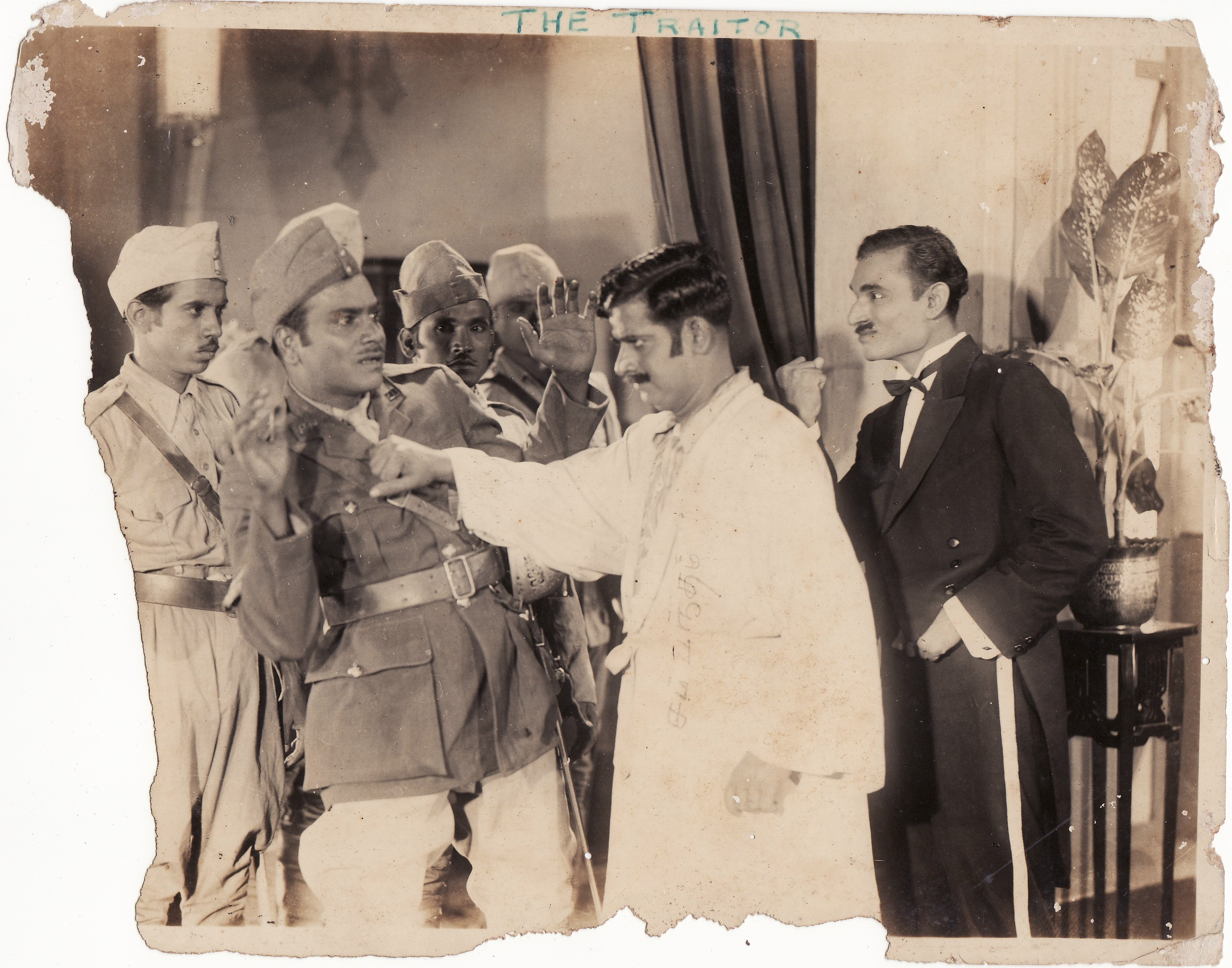 MDP Movie image